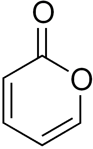 Chemical structure of 2-pyrone (2-pyranone)